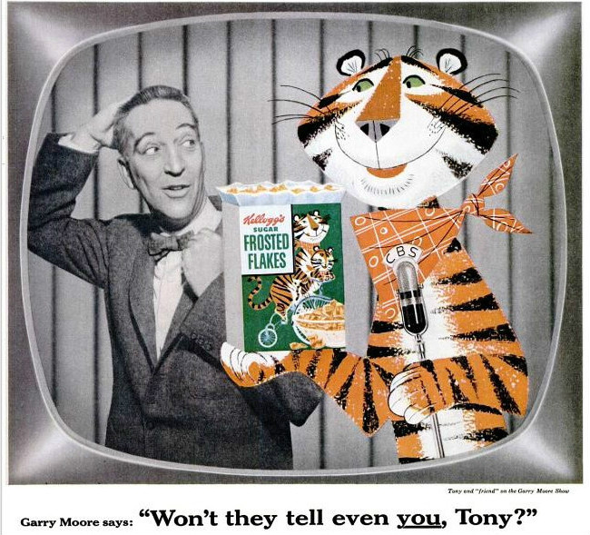 Image of television personality Garry Moore and Kellogg's cereal character Tony the Tiger from a 1955 Kellogg's ad.